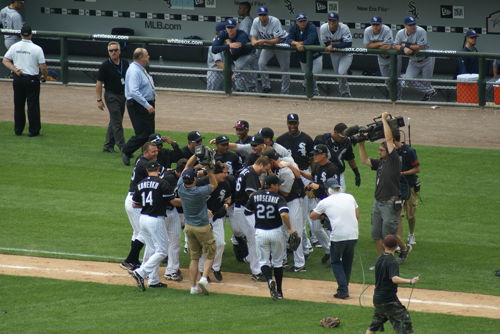 Mark Buehrle of the Chicago White Sox threw a perfect game against the Tampa Bay Rays at U.S. Cellular Field on July 23, 2009.